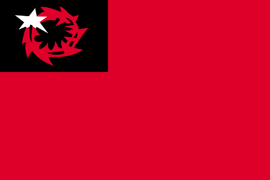 Flag of Buraku Liberation League. Includes stylized version of crown of thorns seen in File:Flag of National Levelers Association.png.